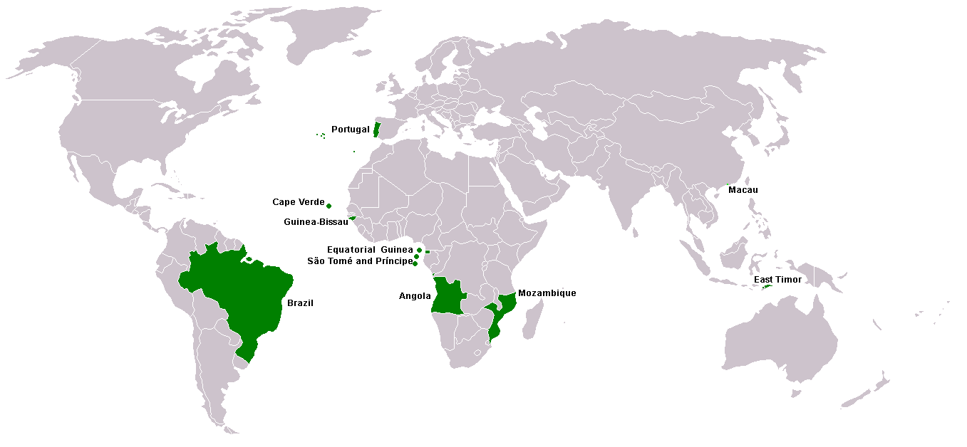 Map of Lusophone world. Map made from Image:BlankMap-World.png. The blank map was made by User:Vardion and adapted by User:E Pluribus Anthony for Wikipedia. This map was improved or created by the Wikigraphists of the Graphic Lab (fr). You can propose images to clean up, improve, create or translate as well.